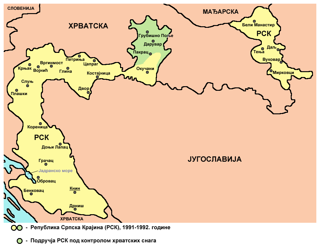 Republic of Serbian Krajina (RSK), 1991-1992.